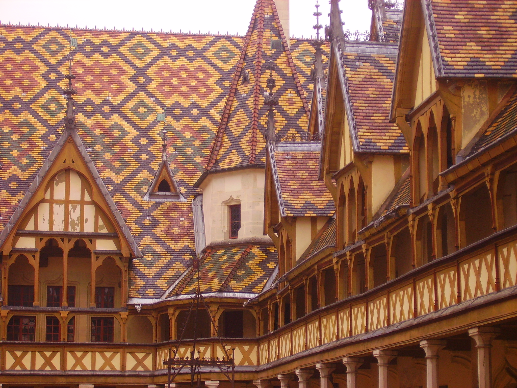 Roof of the Hôtel-Dieu, Beaune